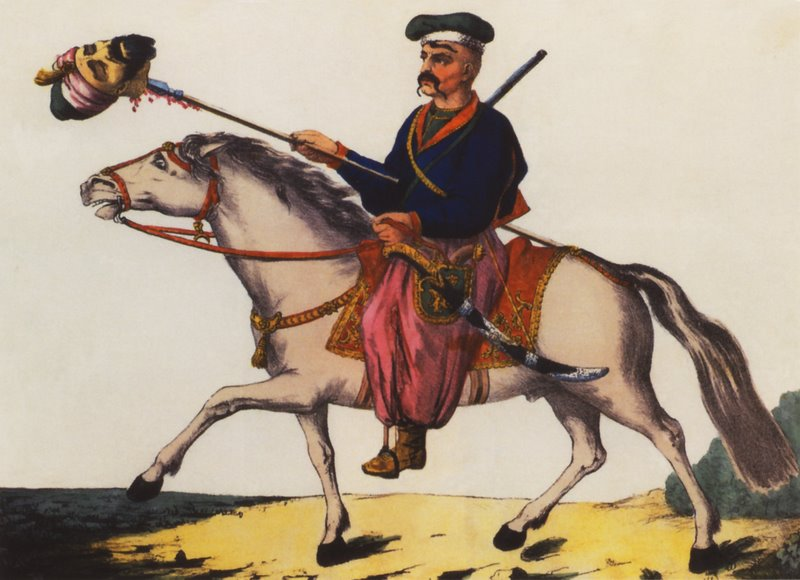 Victorious Ukrainian Cossack with a head of a Tatarin